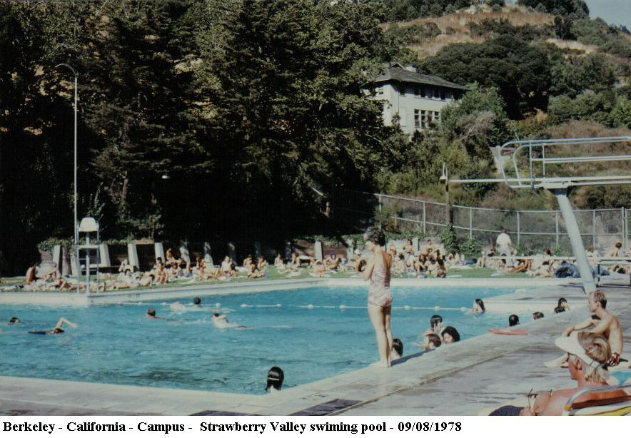 Berkeley - California - Campus - Strawberry Valley pool - 1978